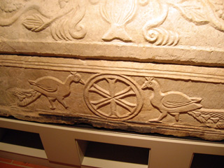 Sarcophagus of Saint Decentius, at Museo diocesano di Pesaro. Marble, sculpted in Ravenna, 6th century